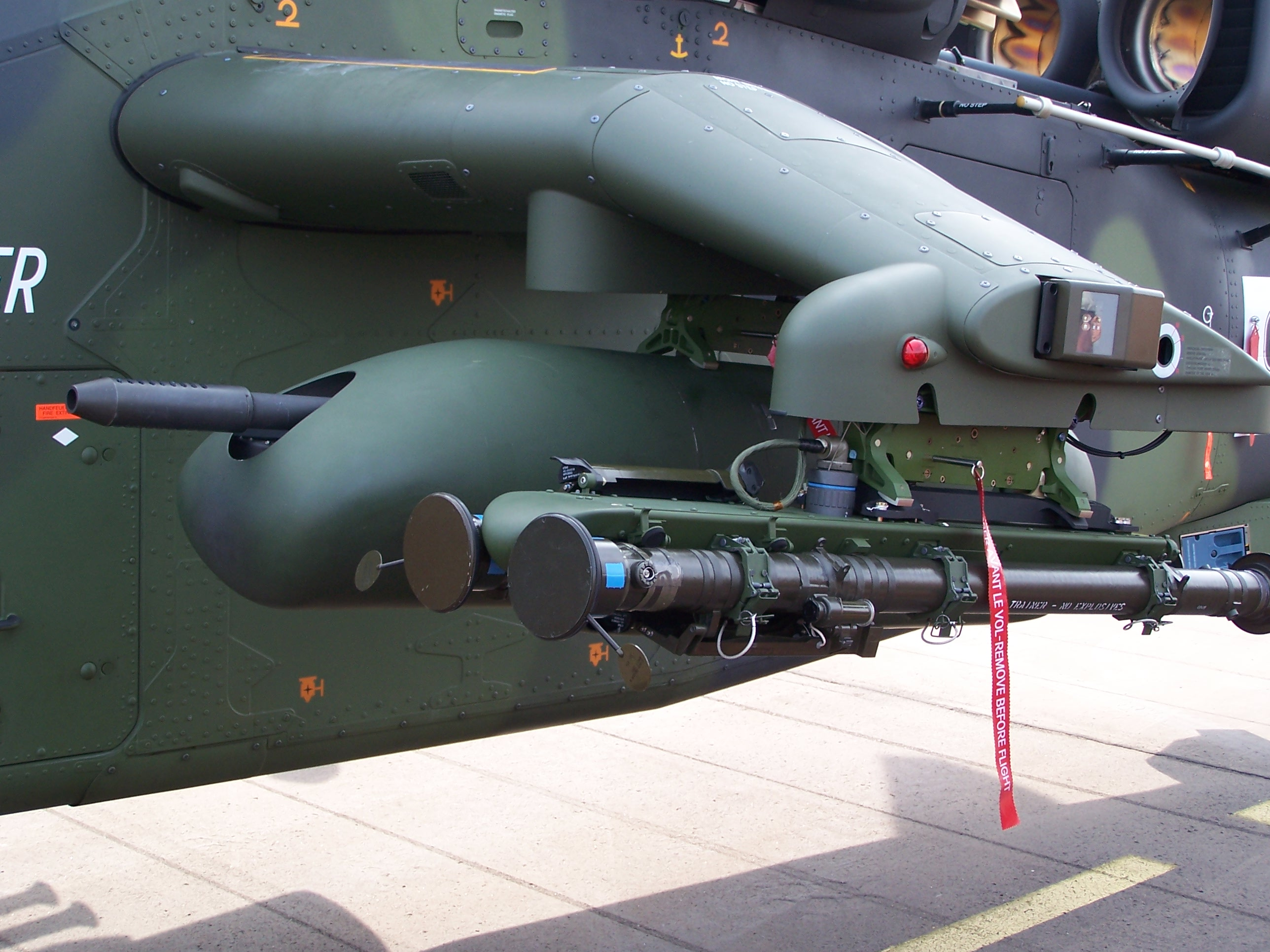 A possible armament for the German Tiger UHT